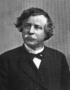 George Edward Lounsbury (May 7, 1838 – August 16, 1904) was an American politician and the 58th Governor of Connecticut from 1899 to 1901.